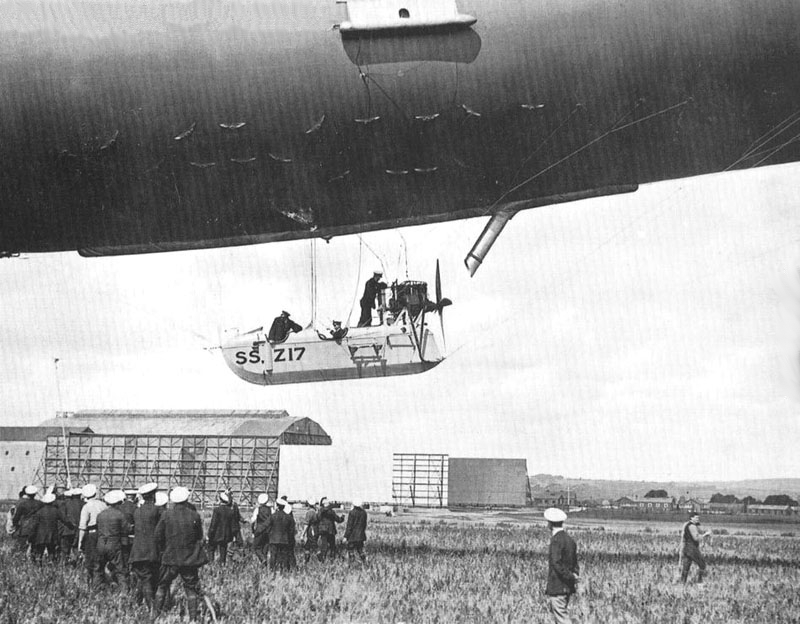 British SSZ class blimp SSZ 17 landing at Pembroke in 1917 (Image cropped to remove text)